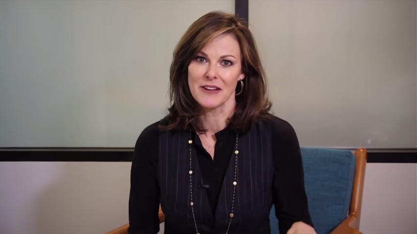 Campbell Brown ’s Advice for the Next President still.